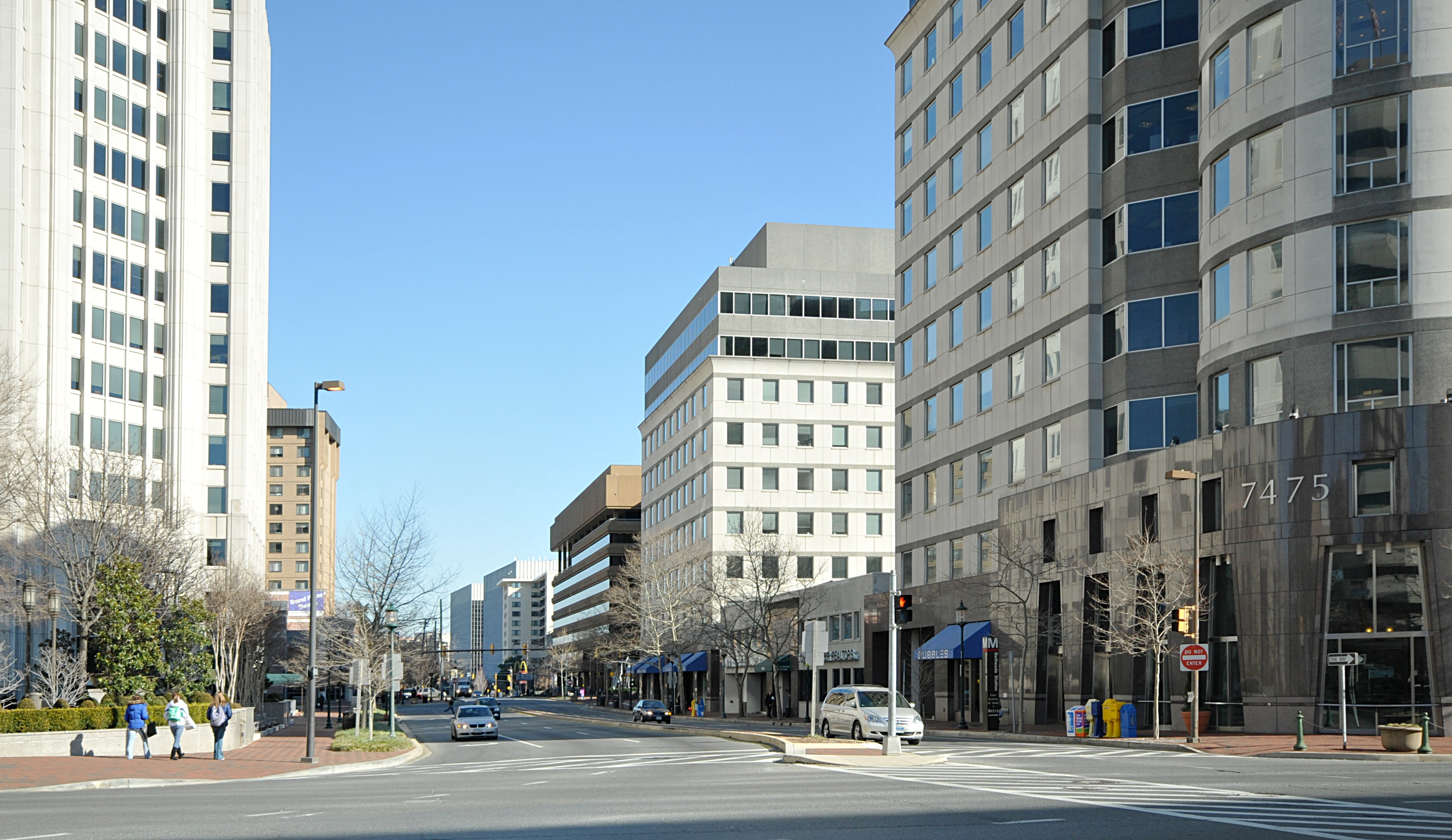 East-West Highway (MD-410) at Wisconsin Avenue (MD-355) This is the Western end of the route.